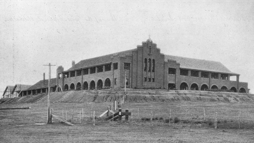 Home of the Good Shepherd, Mitchelton, Brisbane, 1931. The Good Shepherd Institution had been established by the nuns of Our Lady of Charity of the Good Shepherd. It's focus is for the reformation of girls and the care of poor, neglected children. The home stands on a commanding hill in an area of 87 acres. An extensive laundry will provide occupation for the inmantes. The building was dedicated by Archbishop Duhig on Sunday last. (Description supplied with photograph.). The building and site is now used as a co-educational high school, Mt. Maria, run by Brisbane Catholic Education.